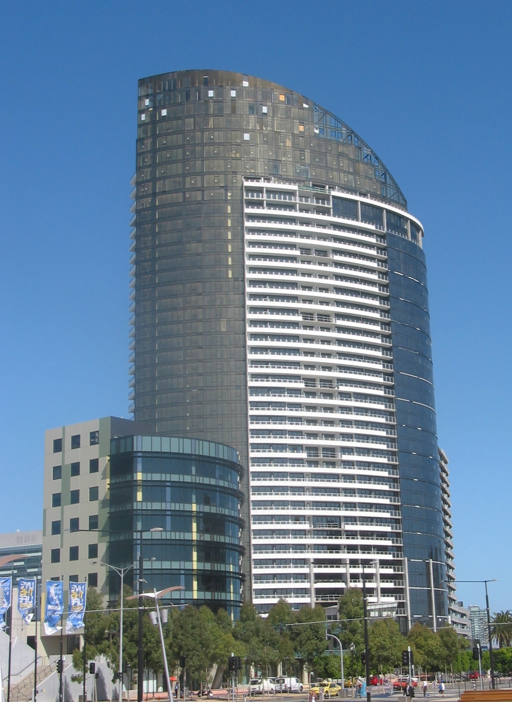 Victoria Point apartments in Docklands, Melbourne, Australia.